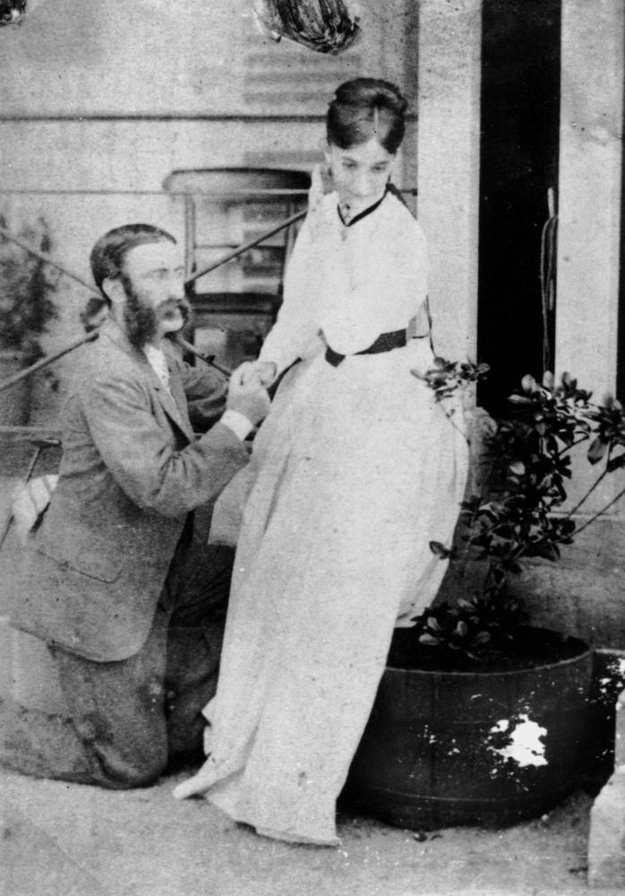 Captain Walter and Mrs Creagh in 1868 (re-enactment of marriage proposal; he's down on both knees).